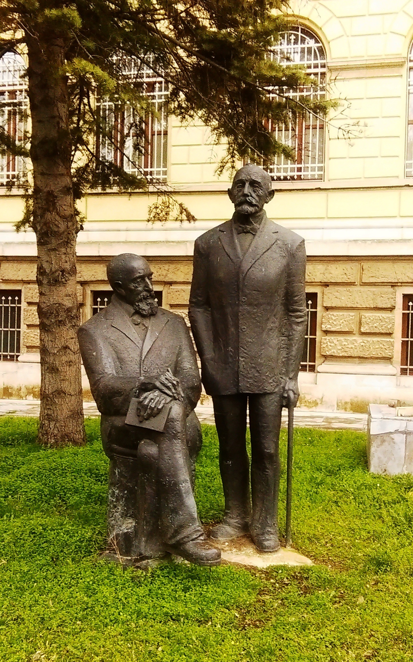 A statue of the czech-bulgarian archaelogists Karel and Herman Brothers Škorpil at Varna archaelogical museum, Bulgaria